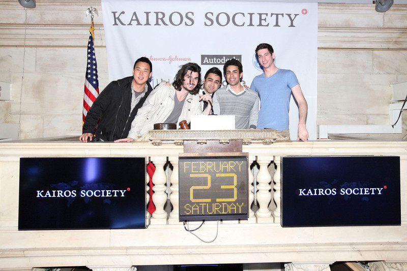 Ketan Rahangdale, Kayvon Nikbakhshian, Eric Walisko and other entpreneurs at the Kairos 2013 Global Summit